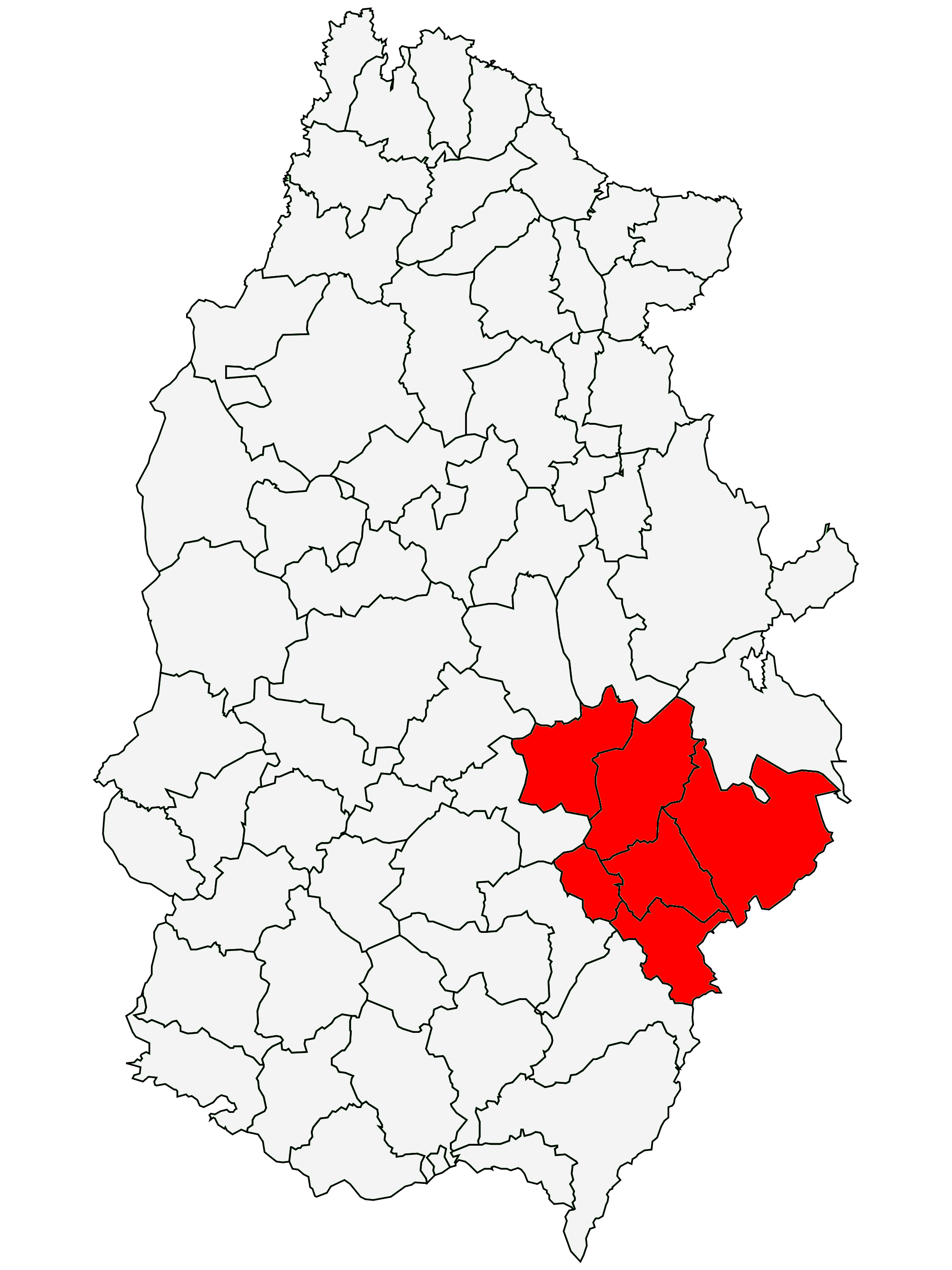 Becerrea